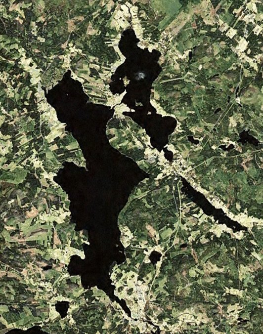 The swedish lake Bygdeträsket. (Sorry for the missspelling in the Lemma. If your are an admin, please change the Lemma to Bygdeträsket)